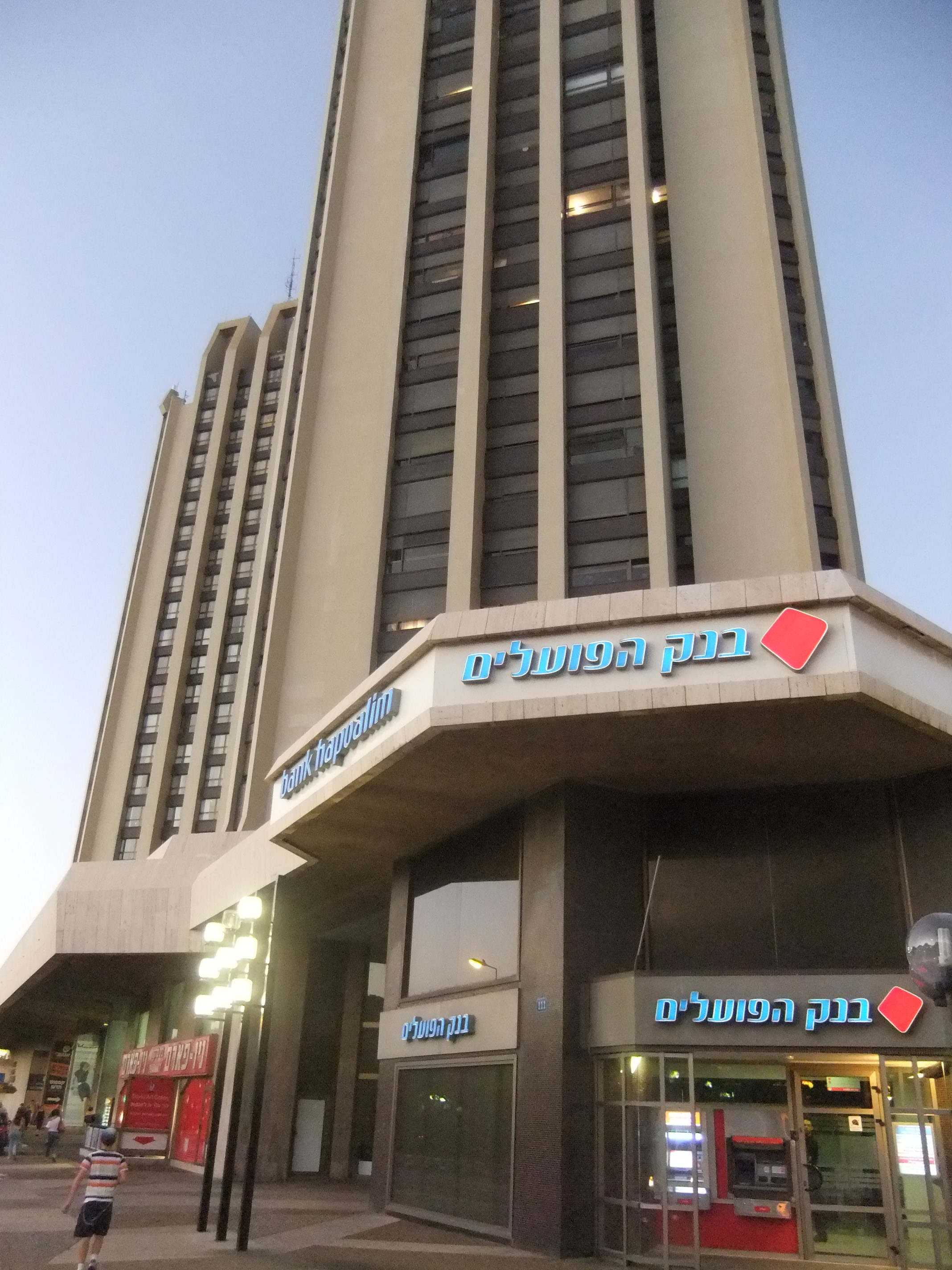 Panorama Towers